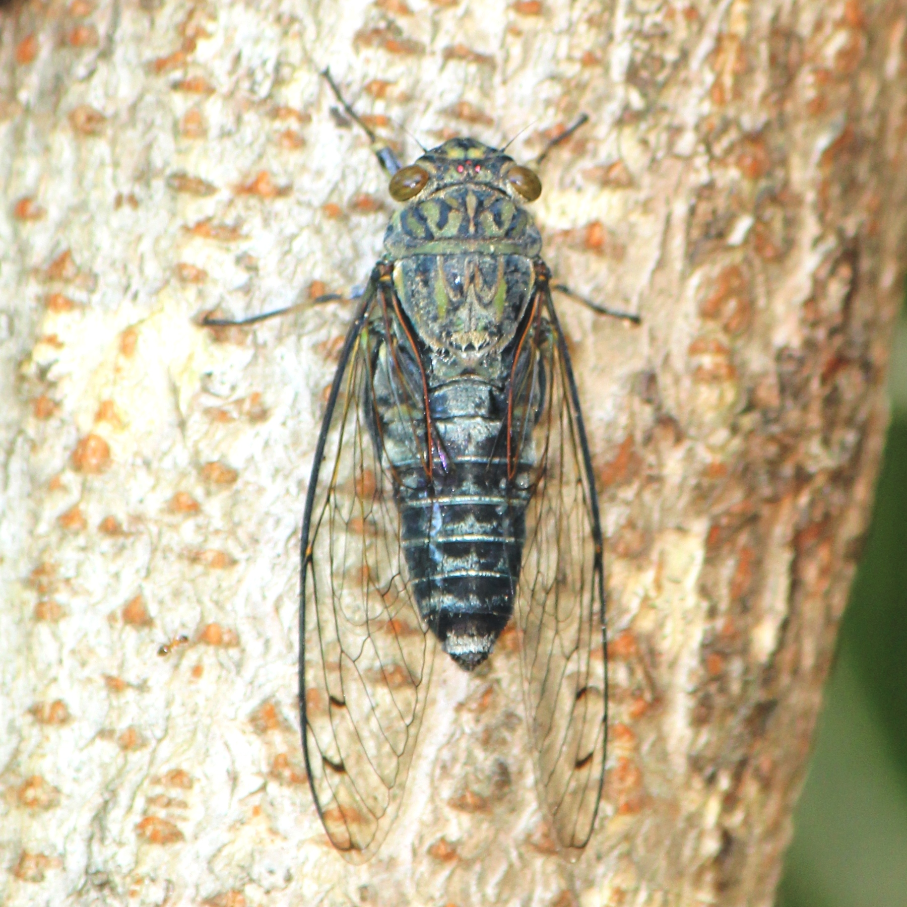 Meimuna opalifera in Yumihari Mountains, Japan.